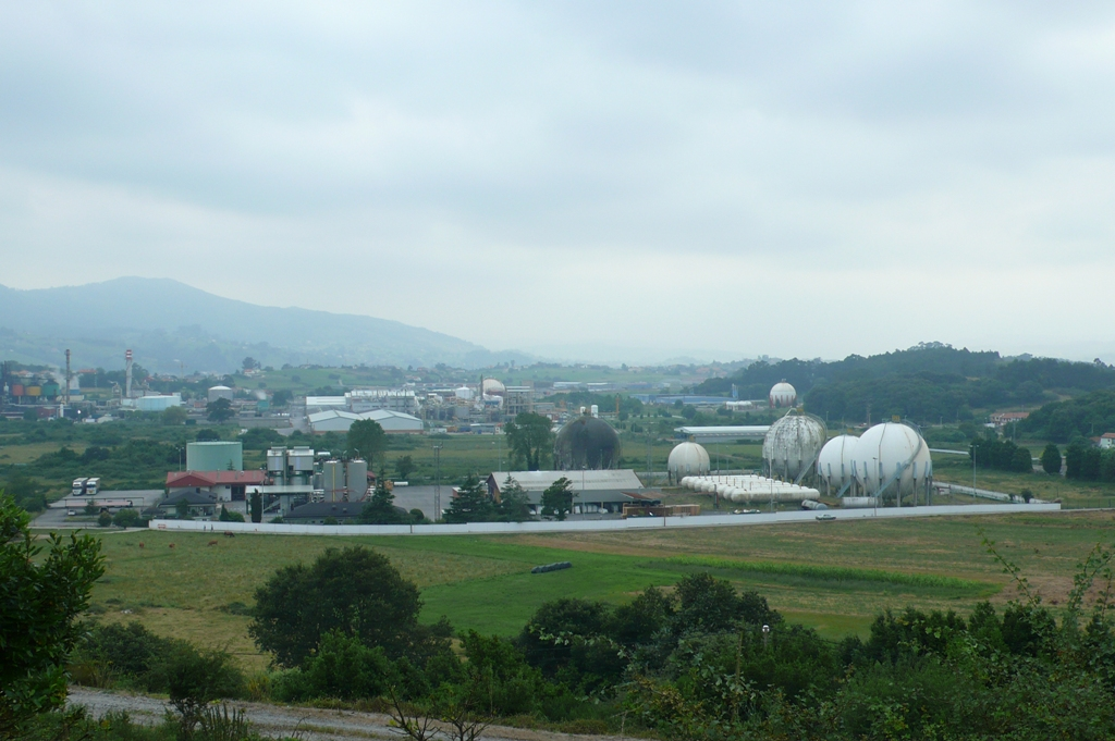 Chemical industry in the municipality of Marina de Cudeyo, Cantabria (Spain).